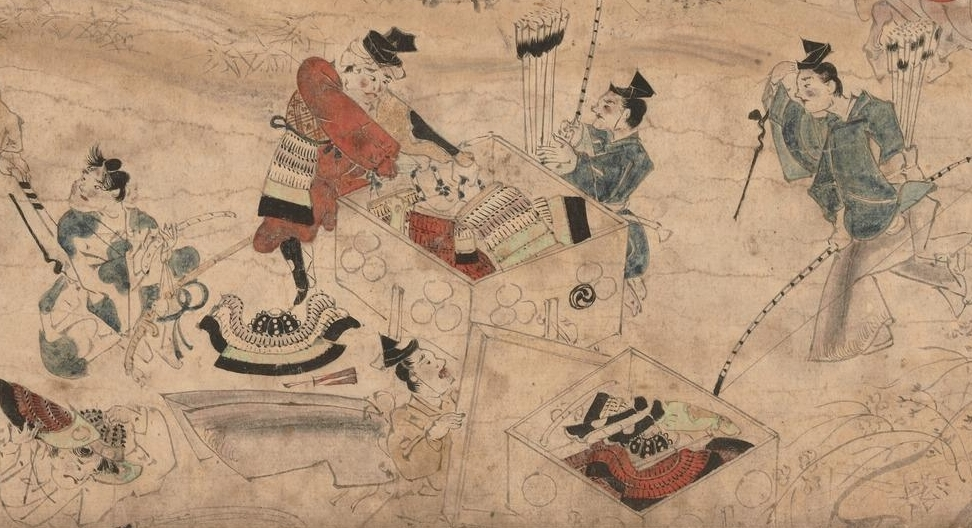 Detail: Armors of samurais carried on the battlefield.